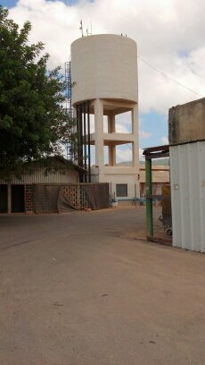 Water tower in Kibutz Mazuva